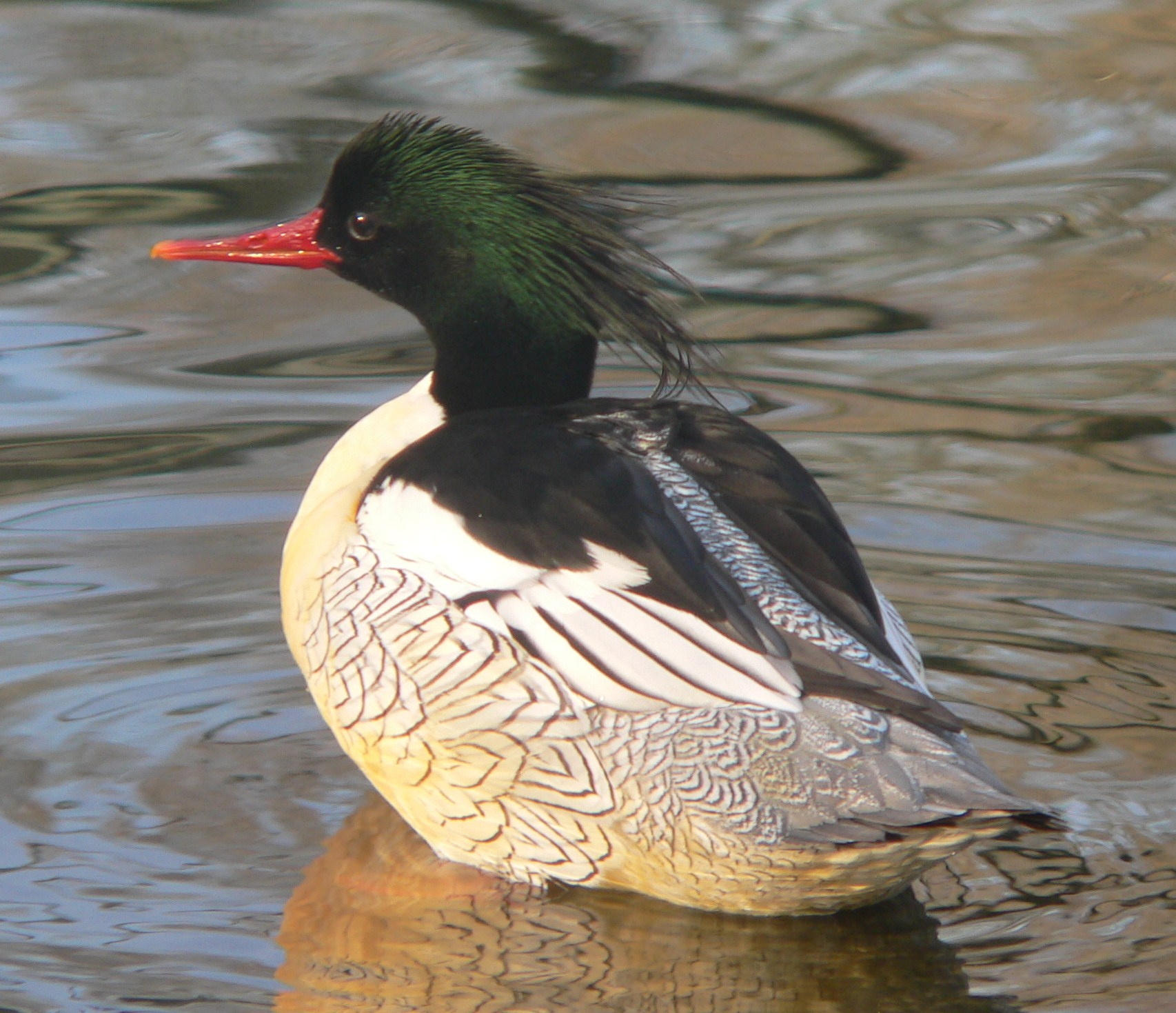 Scaly-sided Merganser, male